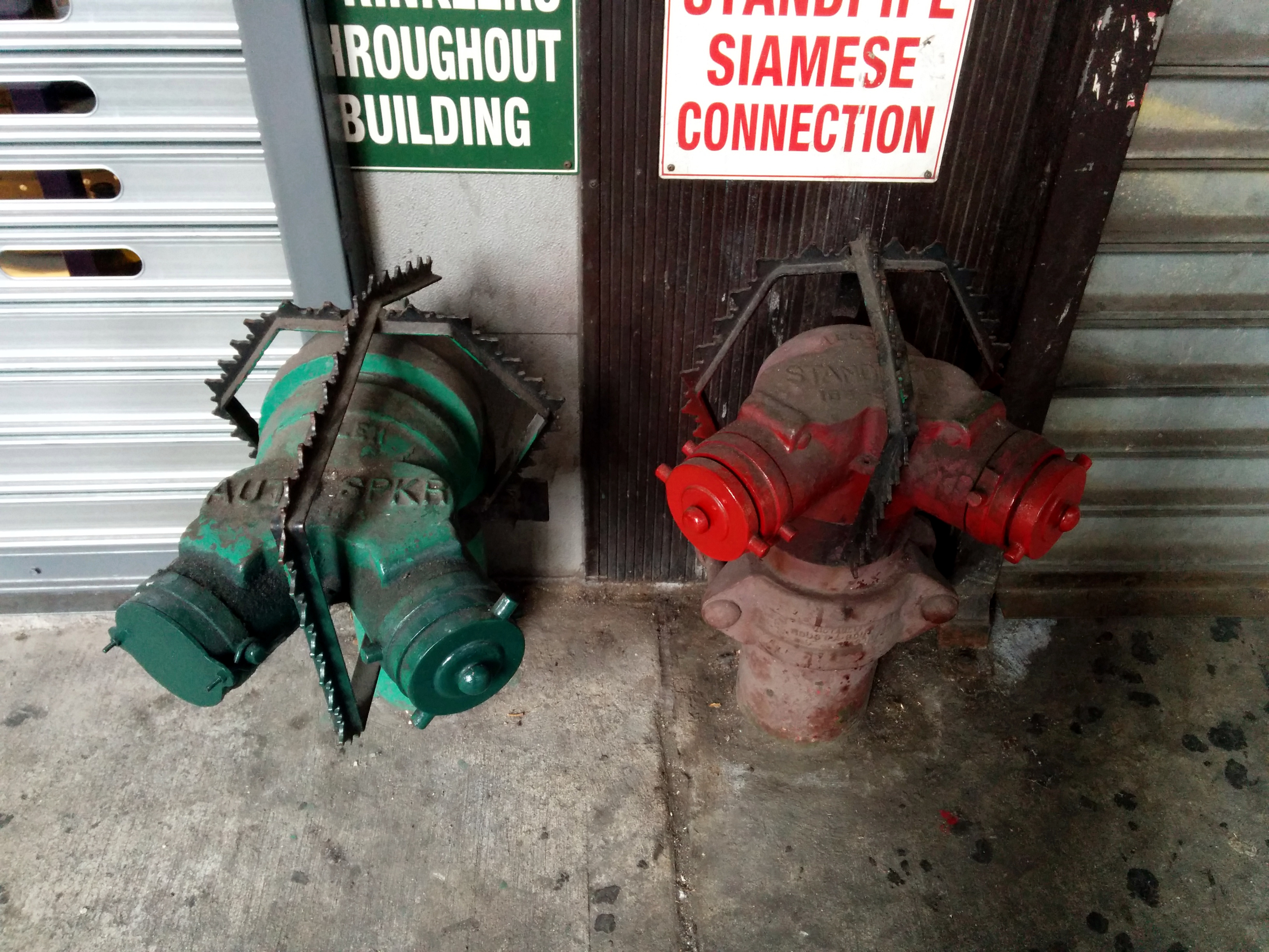 Anti-homeless spikes, fire main, New York City, New York, USA